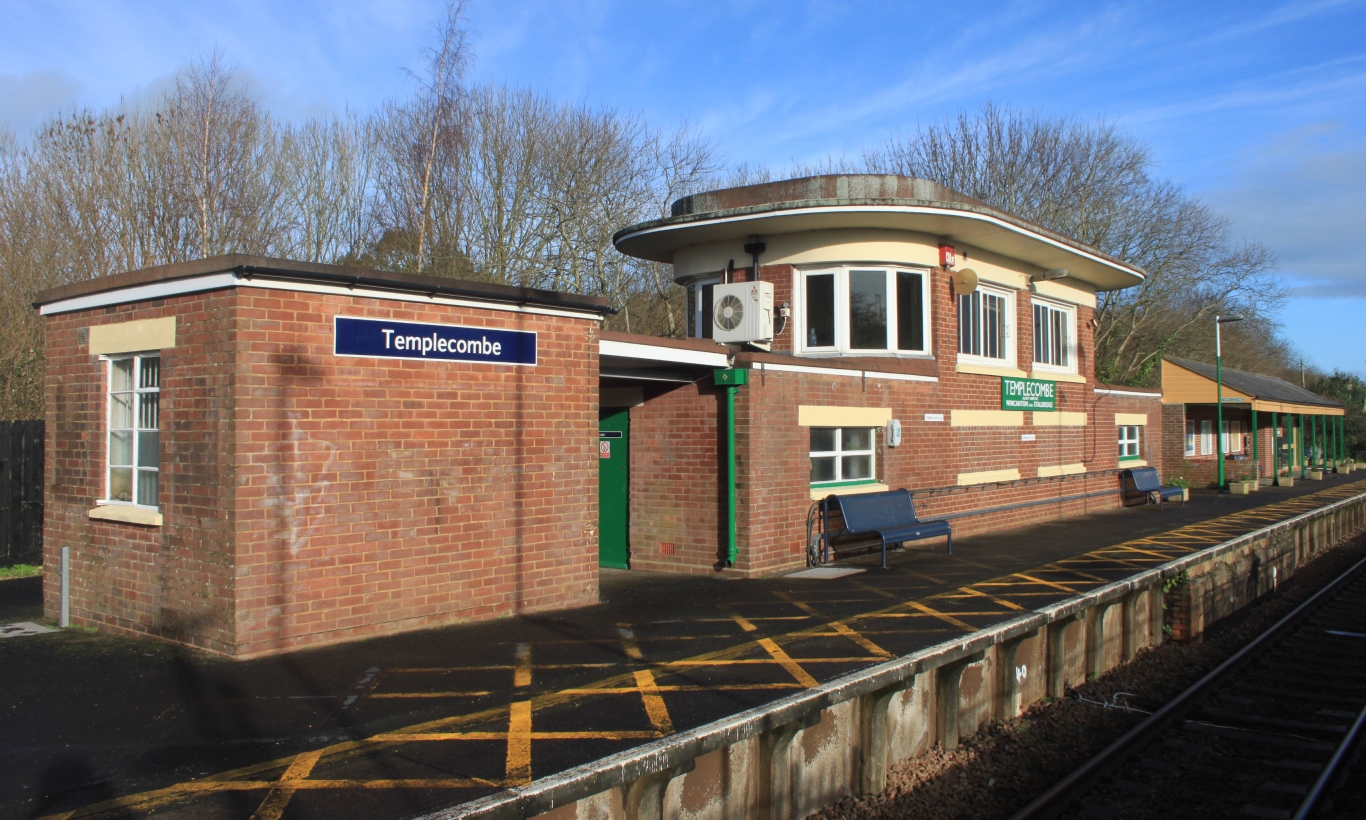 The signal box at Templecombe was built in 1938, and the waiting room in 1988-1990. Both became redundant when the station was rebuilt and resignalled in 2012 although they are maintained by the Friends of Templecombe Station volunteers who have erected a replica Southern Railway nameboard on the signal box.